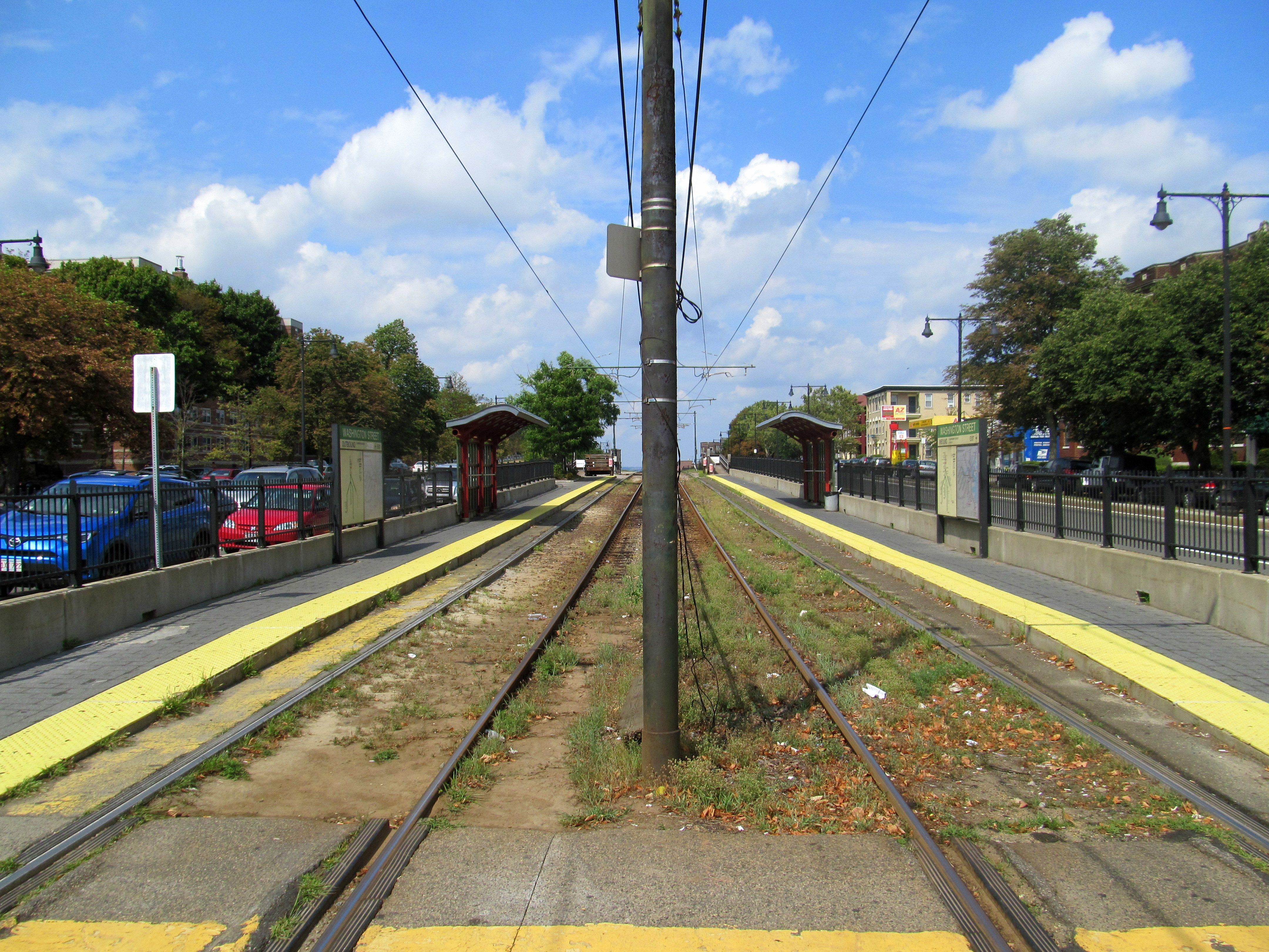 Washington Street station in August 2016